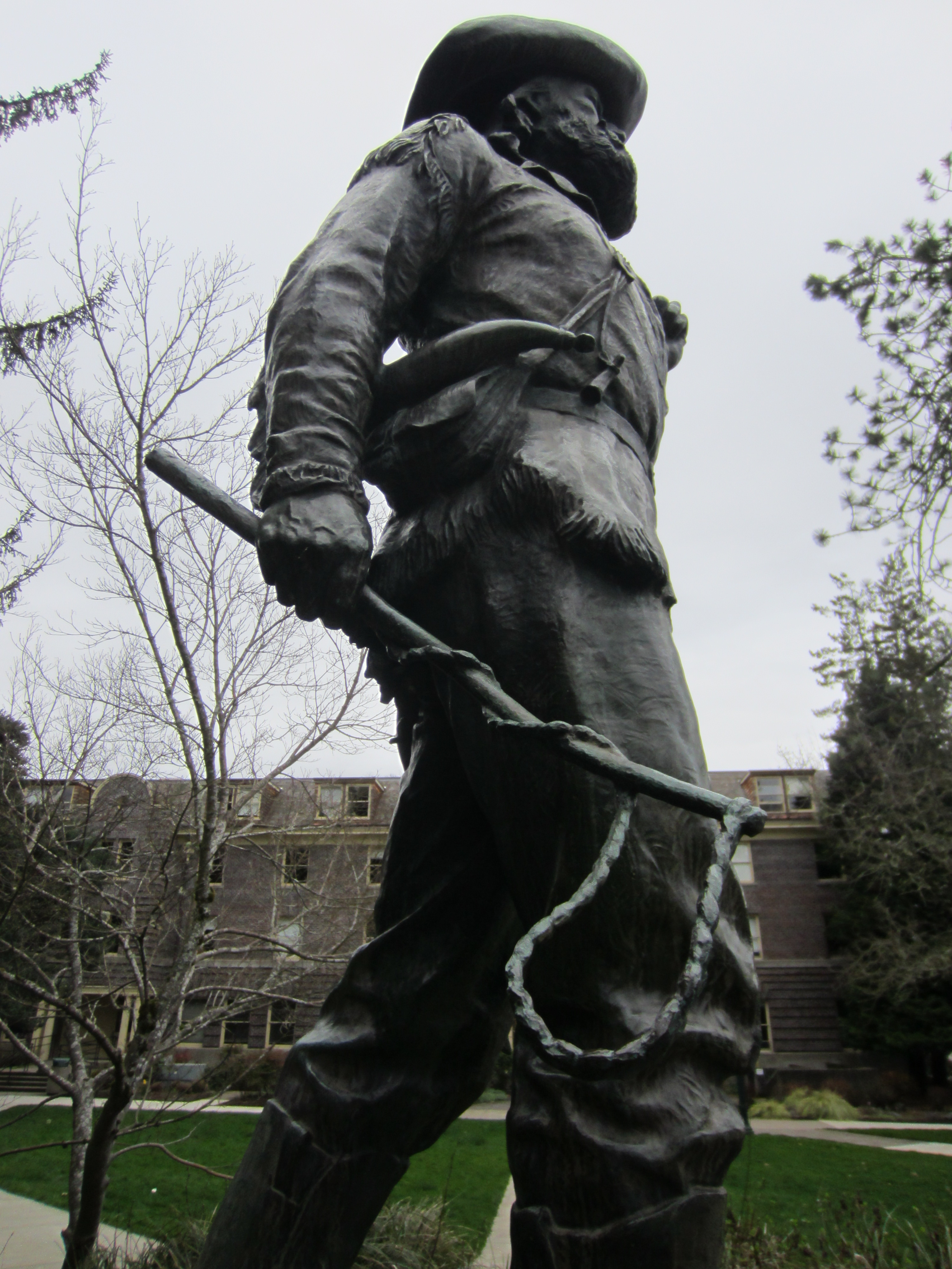 The Pioneer by Alexander Phimister Proctor, located at the University of Oregon campus in Eugene, Oregon (2014)